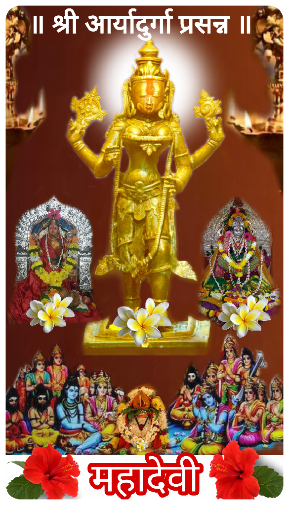 Aai